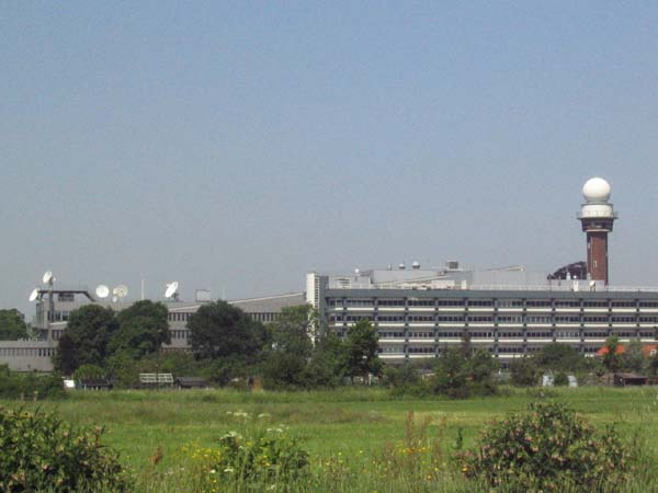 Royal Netherlands Meteorological Institute near De Bilt.